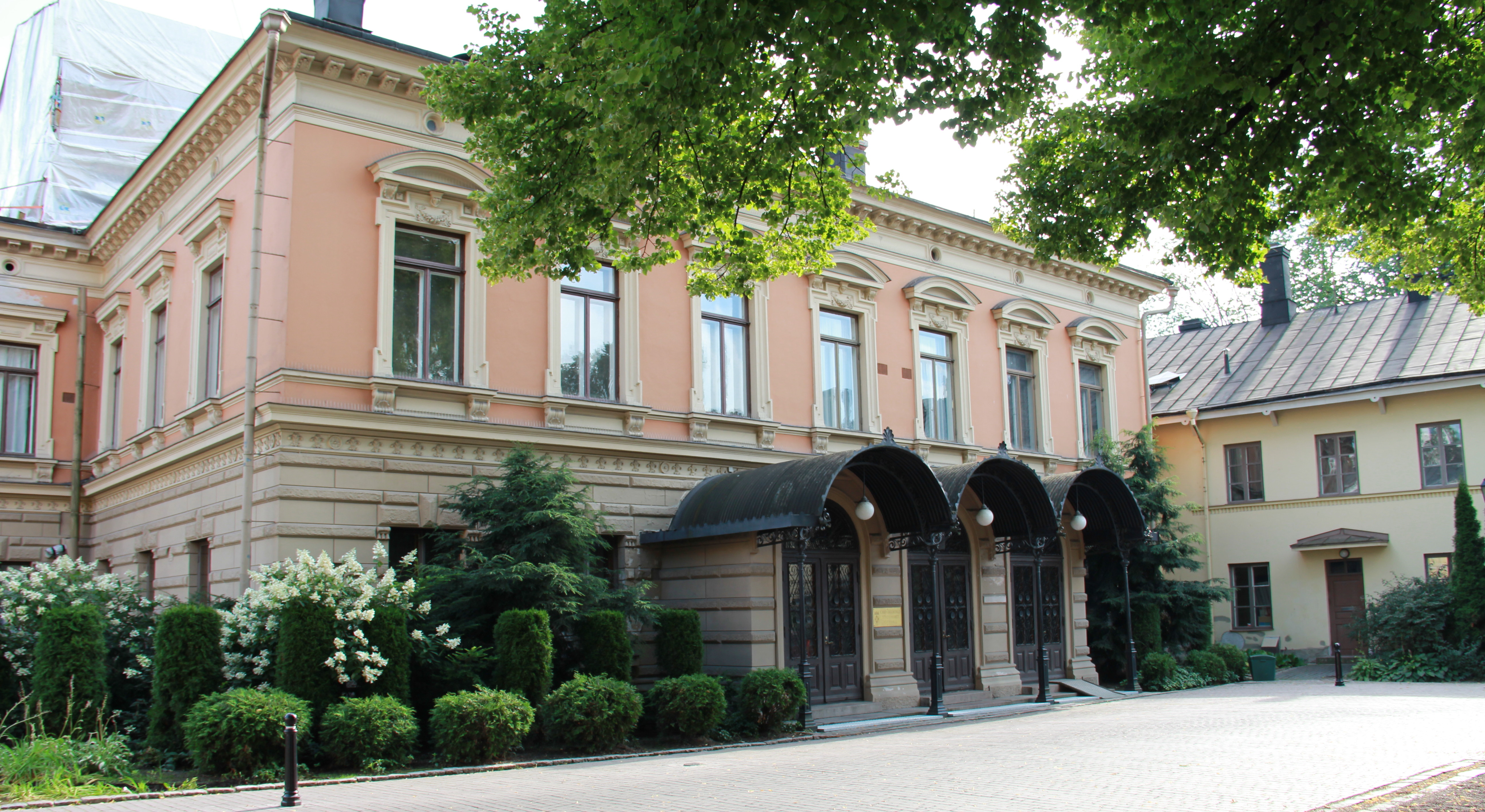 Turku City Hall, Turku, Finland. Main entrance.